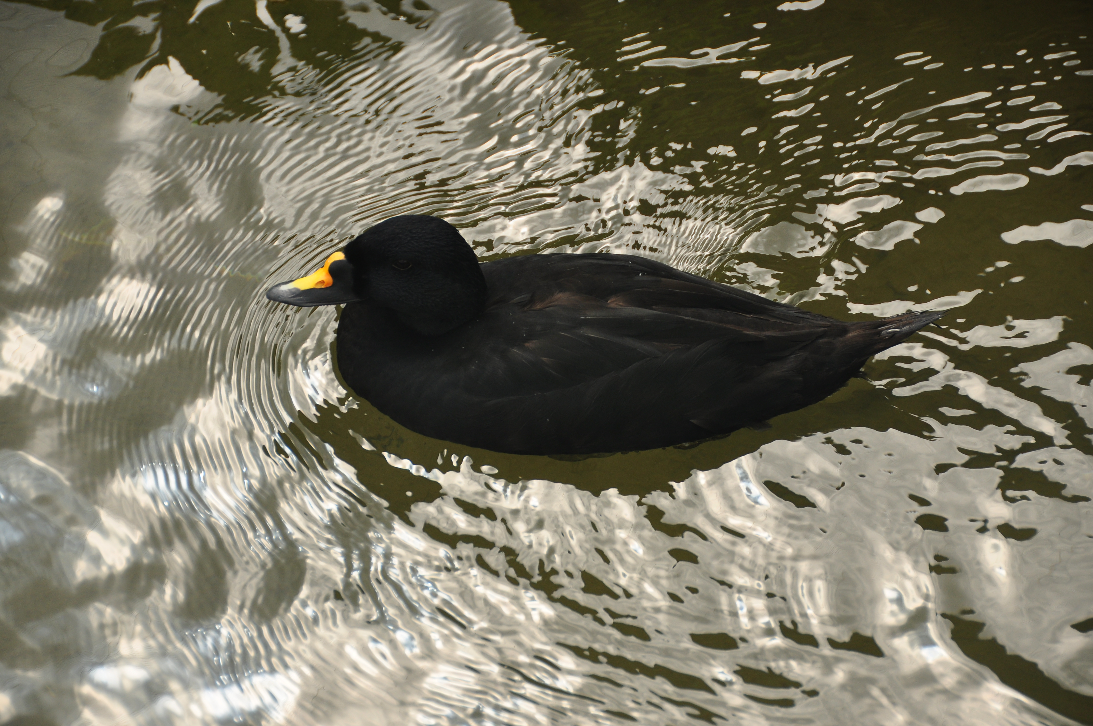 WWT Arundel